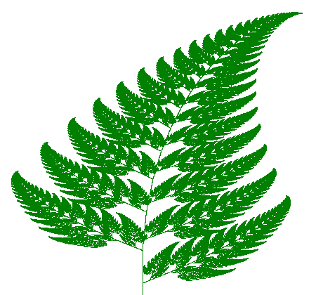 Barnsley's fern illustrates the use of affine translations in an iterated function system (IFS) to create a fractal. In Table III.3 of Michael Barnsley's book, the IFS code for the four affine transformations for the Barnsley leaf is given as a table of values for the coefficients a, b, c, and d, the constants e and f and the probability percentage factor of p as follows: a b c d e f p 0 0 0 .16 0 0 .01 .85 .04 -.04 .85 0 1.6 .85 .2 -.26 .23 .22 0 1.6 .07 -.15 .28 .26 .24 0 .44 .07